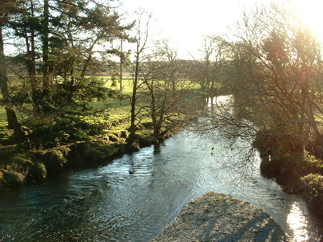 Afon Dwyfor. Taken from Lodge Bridge at the end of Cwm Pennant